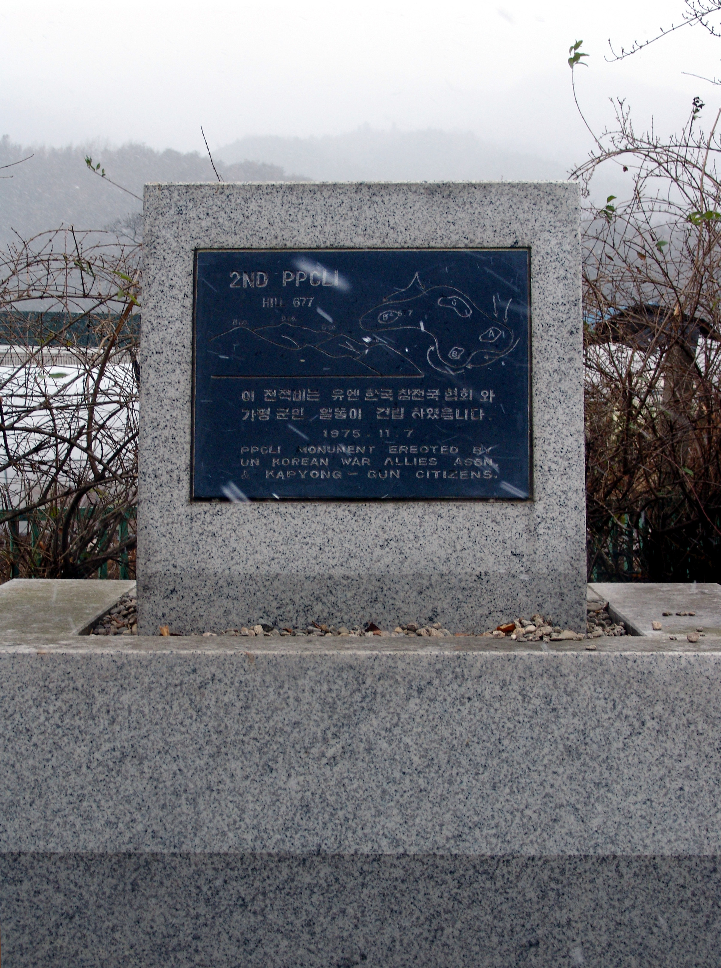 The text of the monument dedicated to the Princess Patricia Canadian Light Infantry at the Gapyeong Canada Monument. I took the picture.